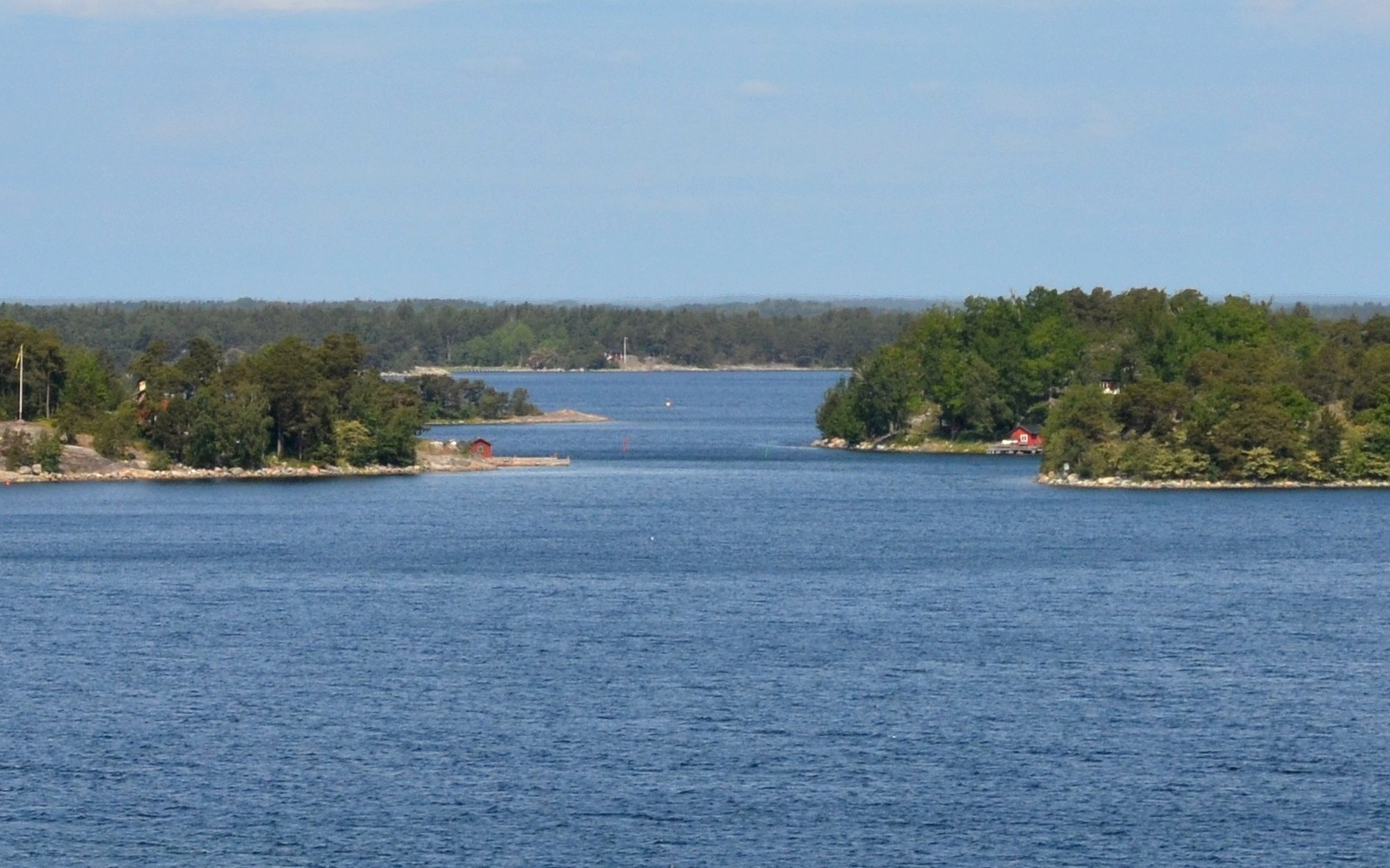 Tornösund between Möja (left) and Stora Tornö (on the right).